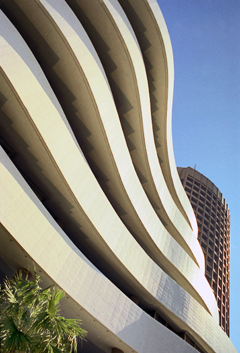 disengof center tel aviv